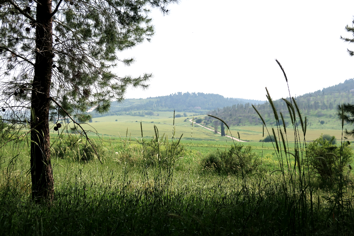 Wadi Sur, an extension of the Elah Valley